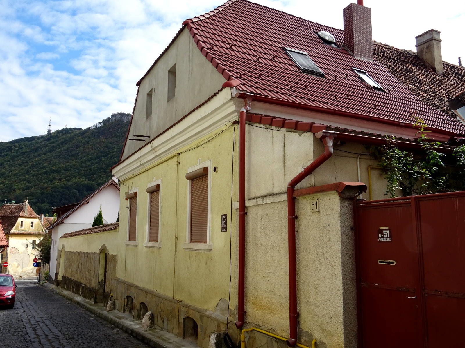 House on Brâncoveanu street (Brasov, Romania), number 51